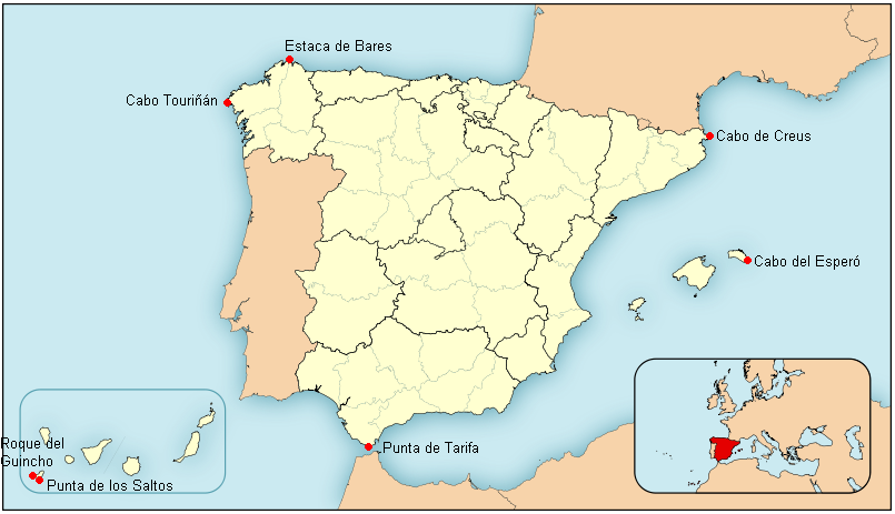 Map of the extremes points of Spain.